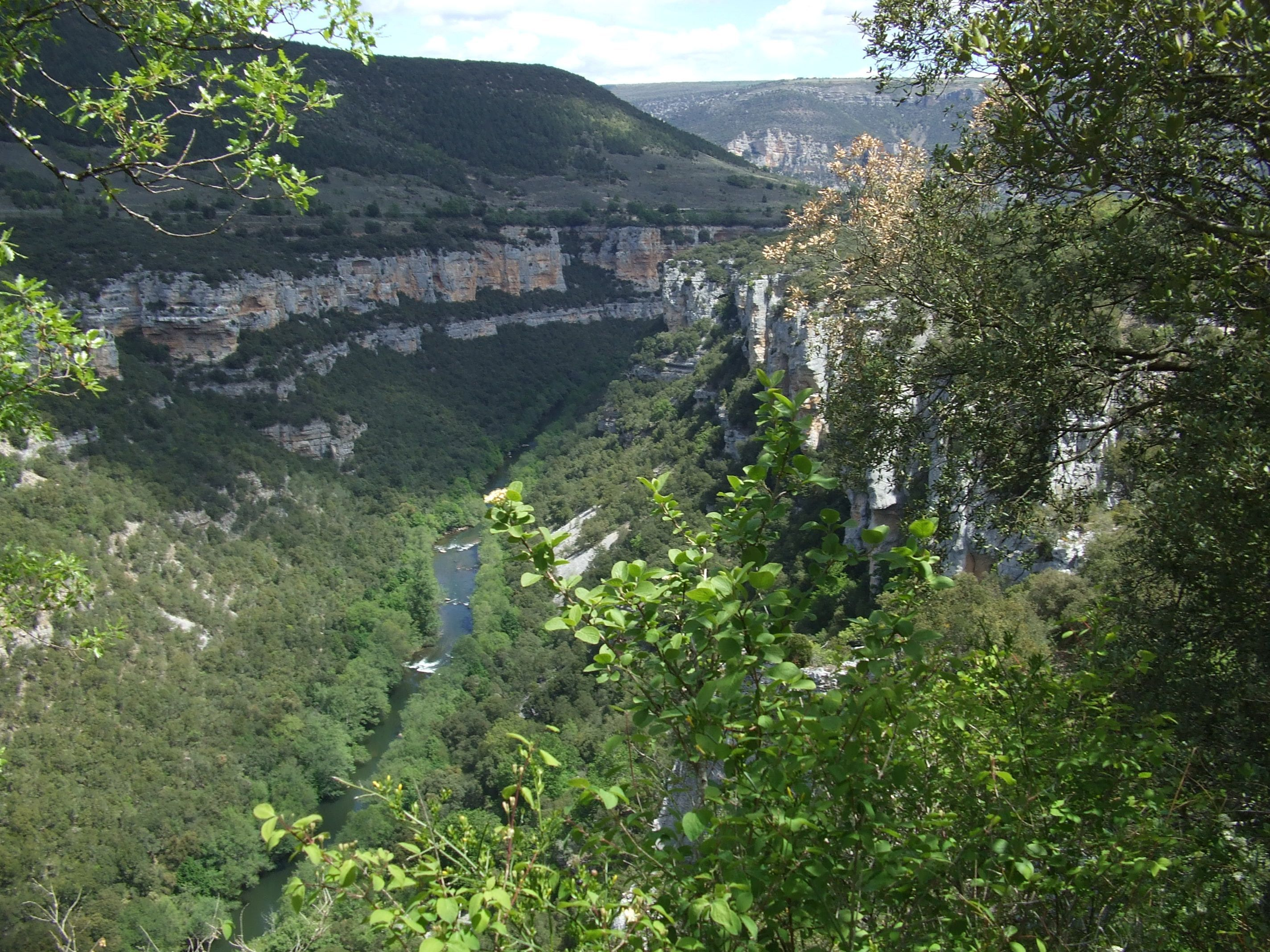 Canyon of River Ebro